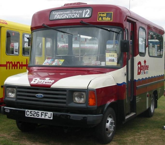 Ford minibus (cropped from original source image)